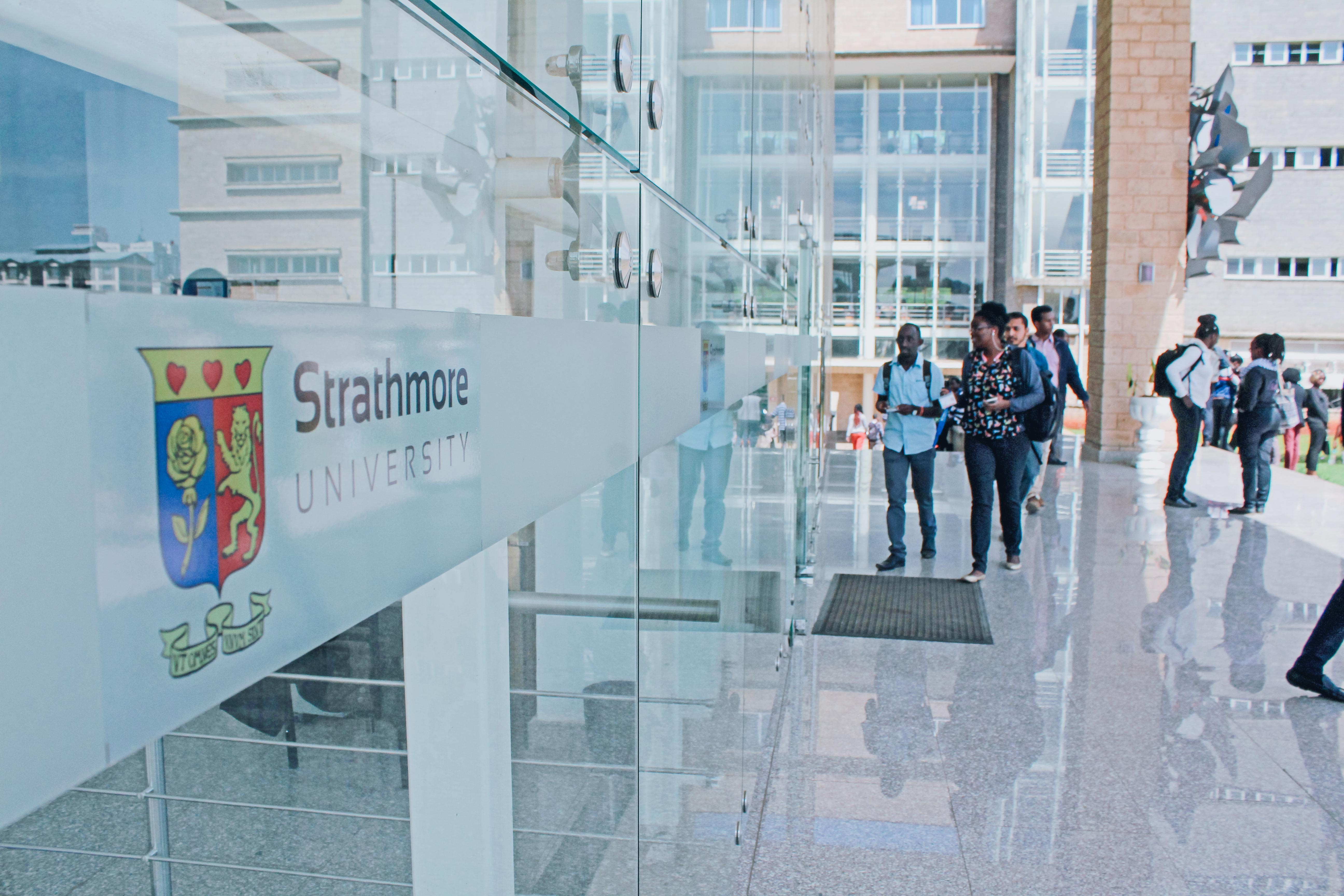 Strathmore University students walking to class